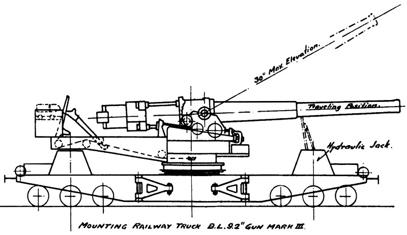 Diagram showing right elevation of British BL 9.2 inch Mk X gun on railway mounting Mk III, on railway truck Mk II (straightback truck), World War I.